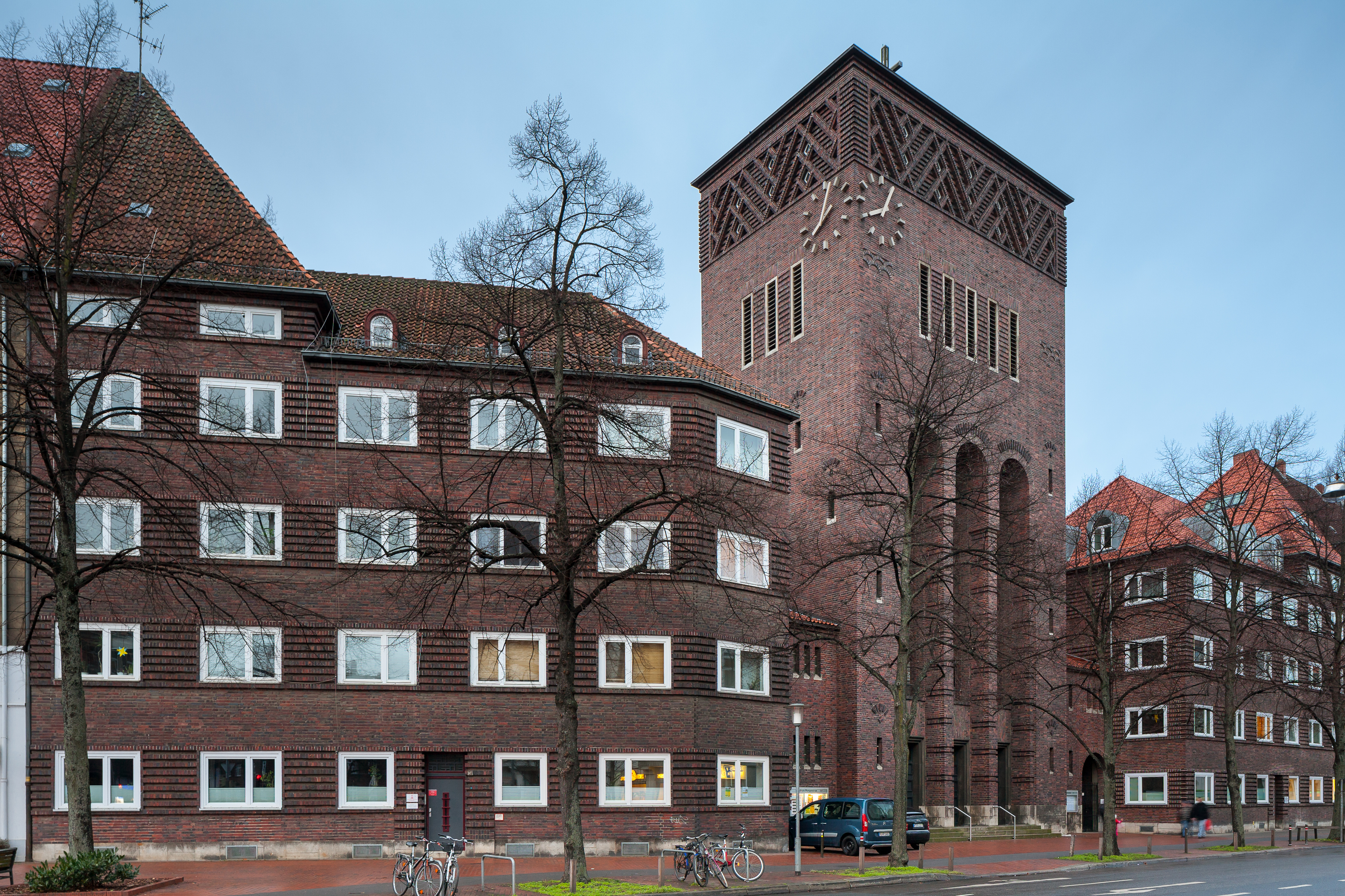 Sankt Heinrich church located at Sallstrasse, Hanover, Germany.